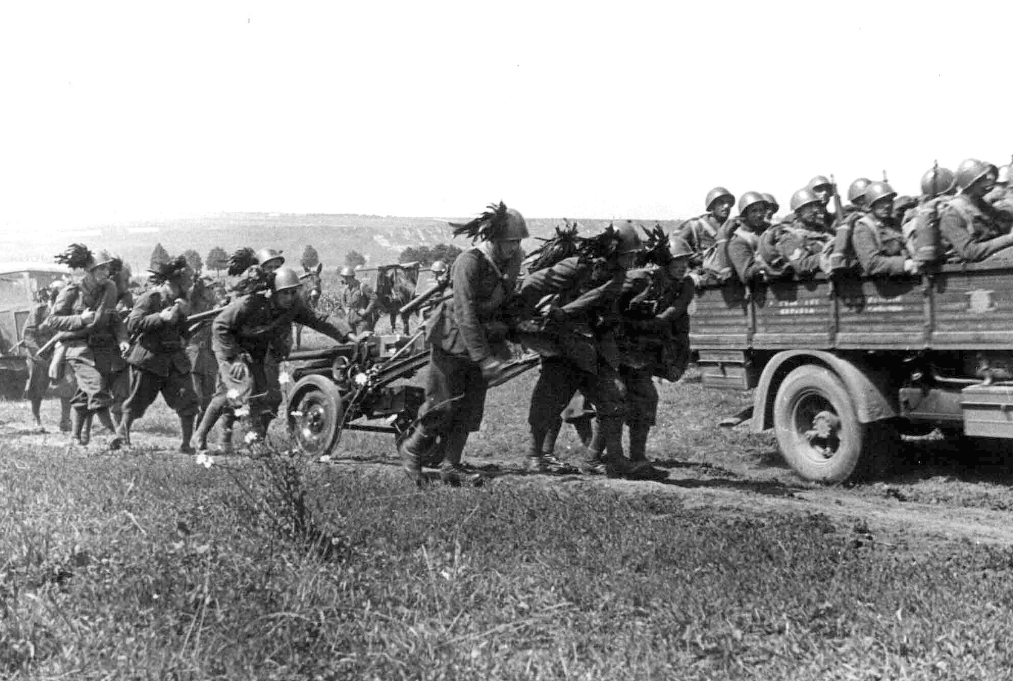 Italian bersiglieri troops with artillery advancing to the front line